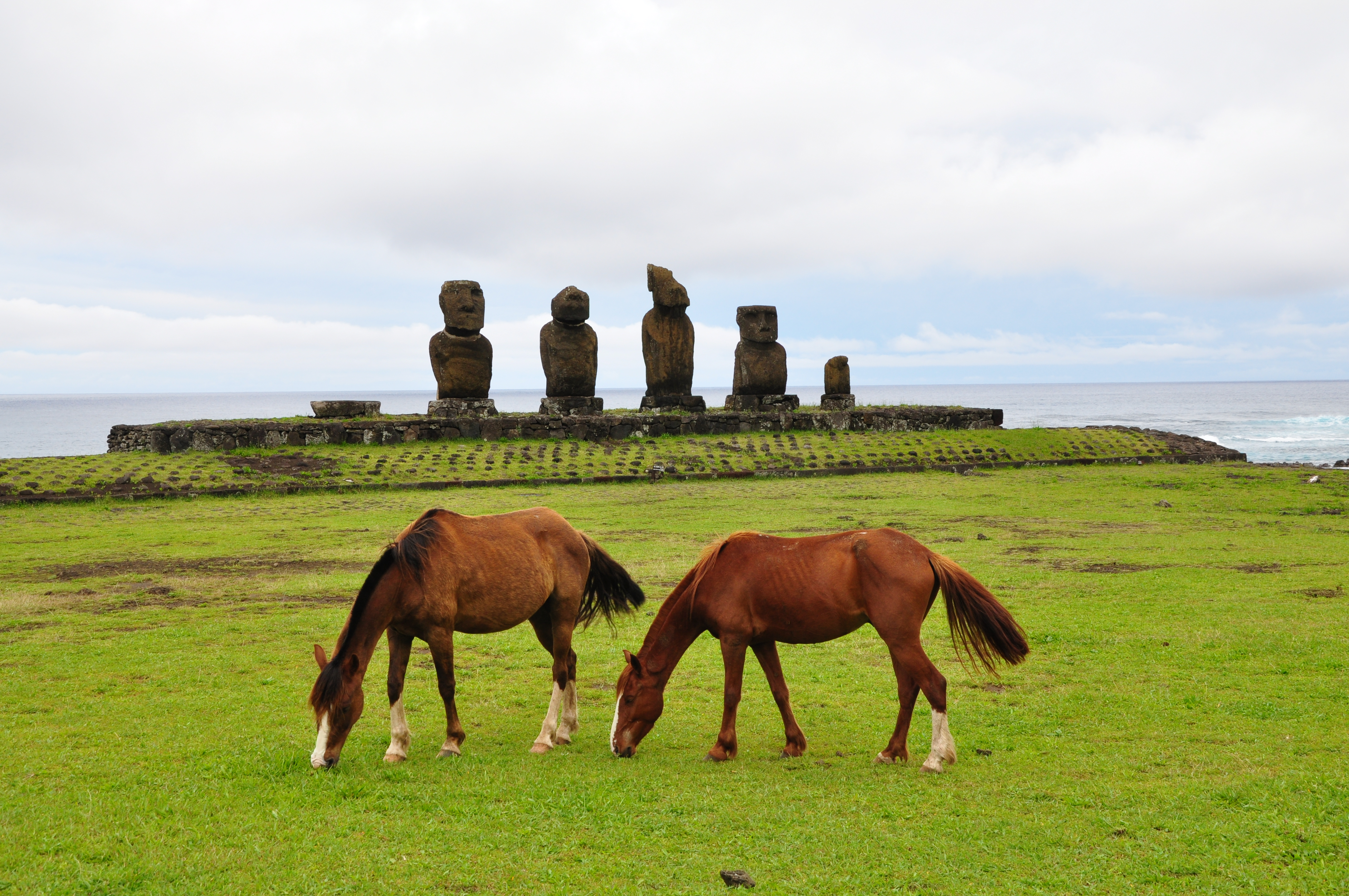 Horses, some wild, some owned, roam Easter Island freely